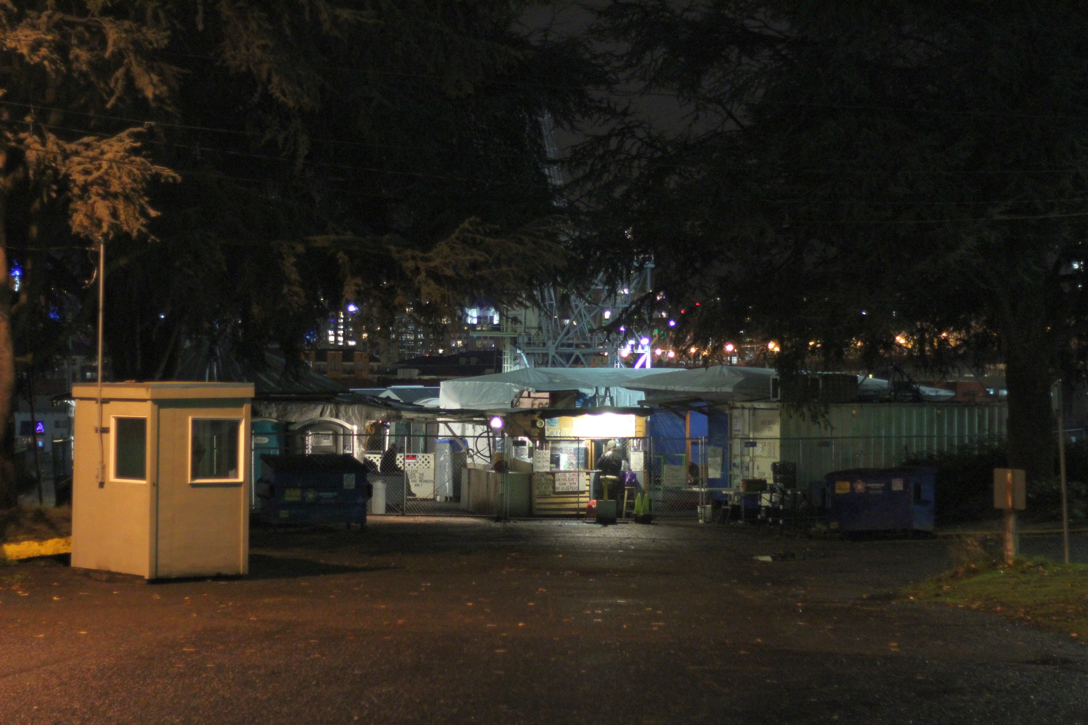 Right 2 Dream Too transient encampment colony in Portland, Oregon in December, 2019.